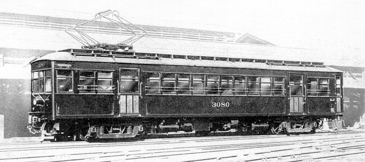 Aichi Electric Railway Type DEN 7 EMU No.3080